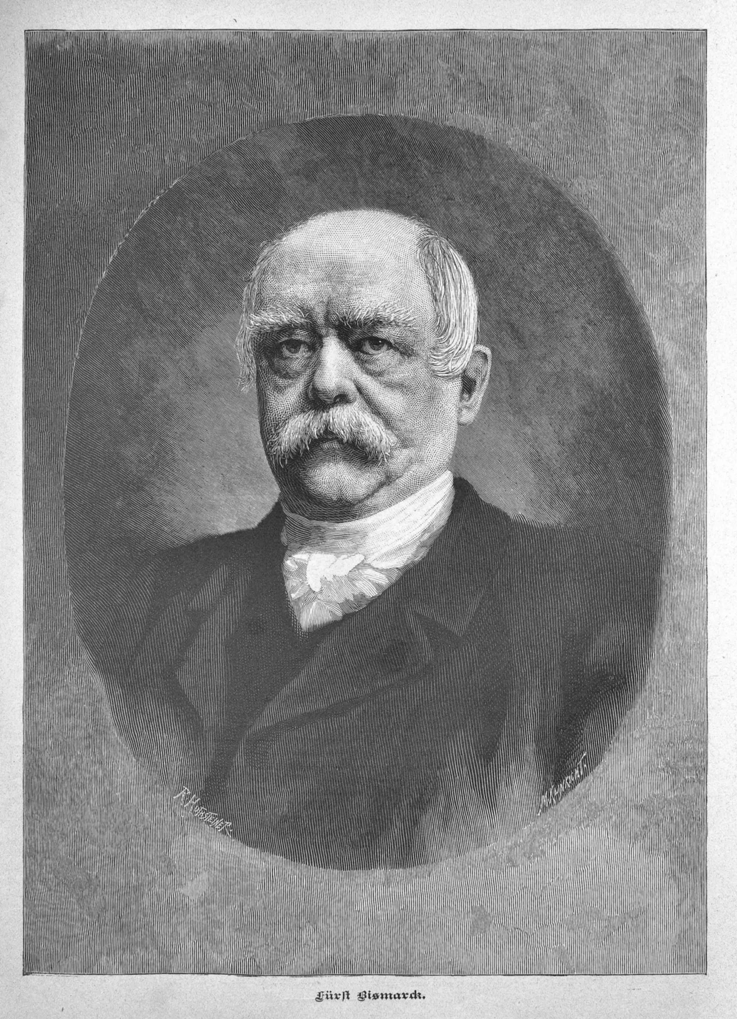 caption: "Fürst Bismarck."